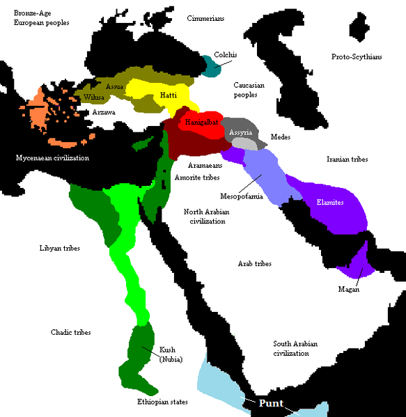 Map of the world of the Amarna letters